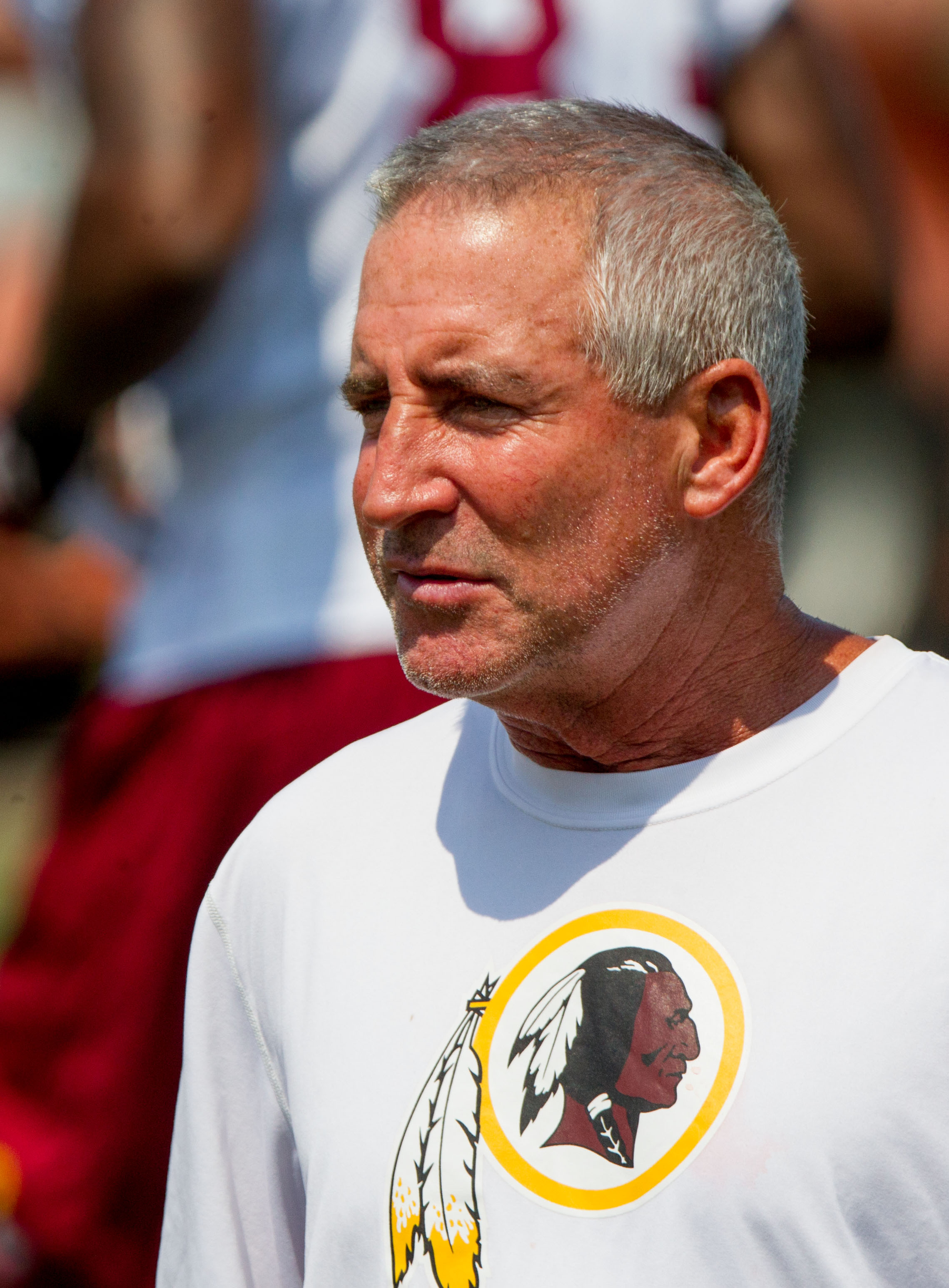 Washington Redskins Training Camp August 1, 2012